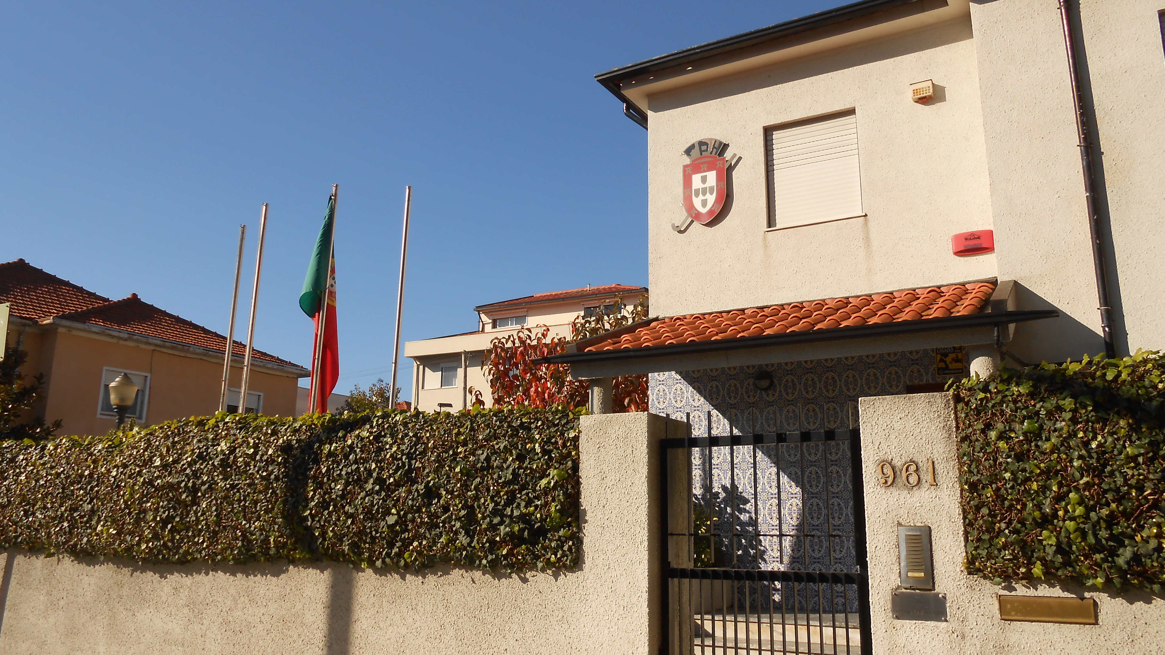 The portuguese hockey federation in Oporto.